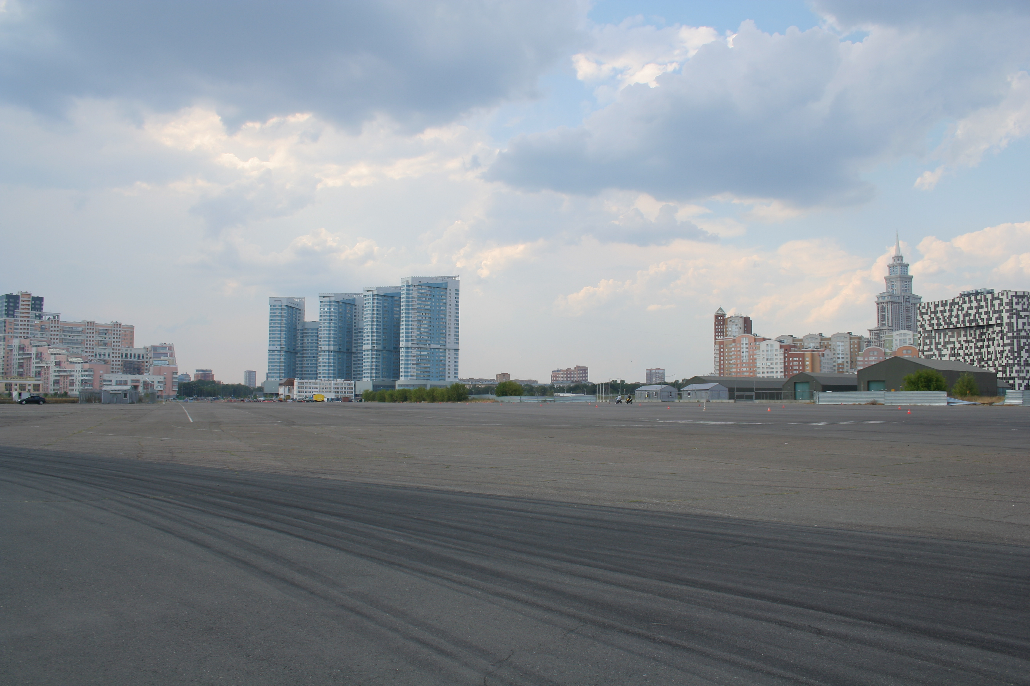 The Khodynka Field in Moscow. Views of the field in 2010.